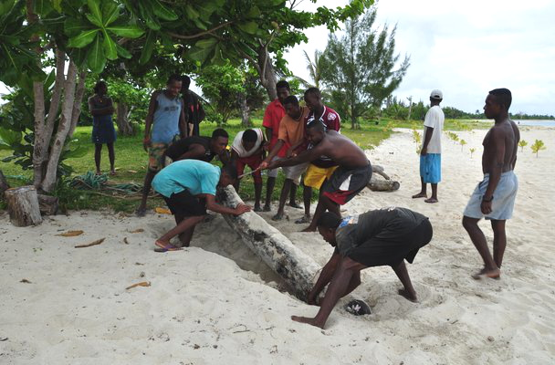 Workers concealing illegally logged rosewood by burying it at a beach near Cap Est, adjacent to Masoala National Park